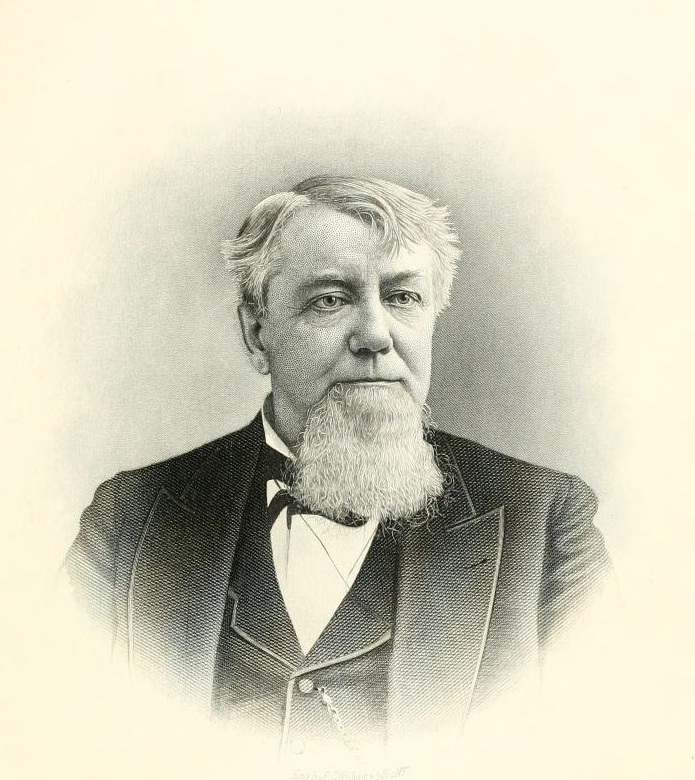 Portrait of New York Supreme Court justice George A. Hardin (1832-1901)